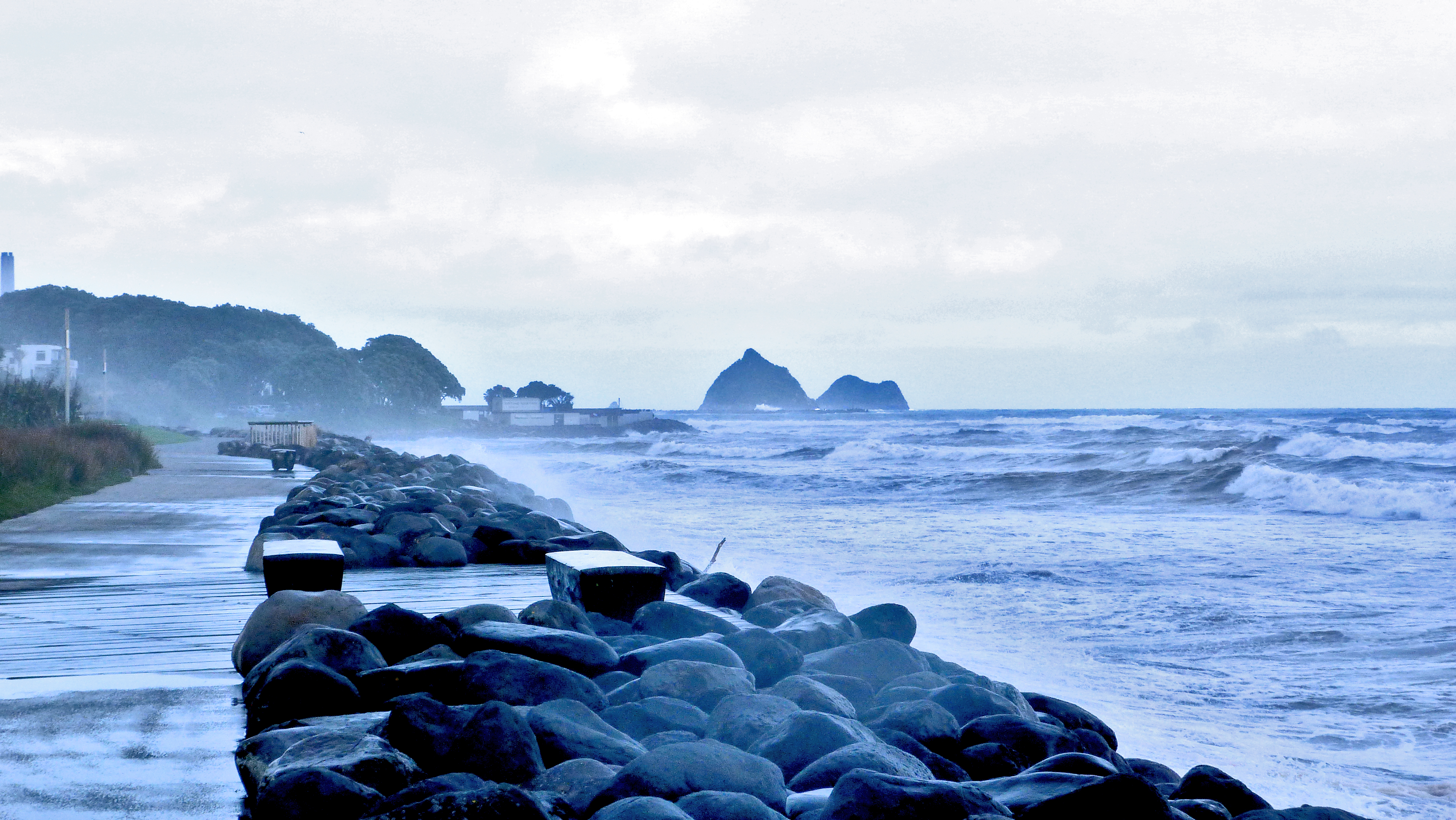 New Plymouth - Coastal Walkway